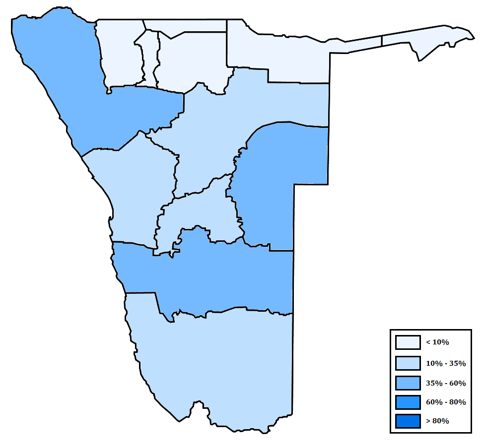 Distribution of Nama/Damara in Namibia per region